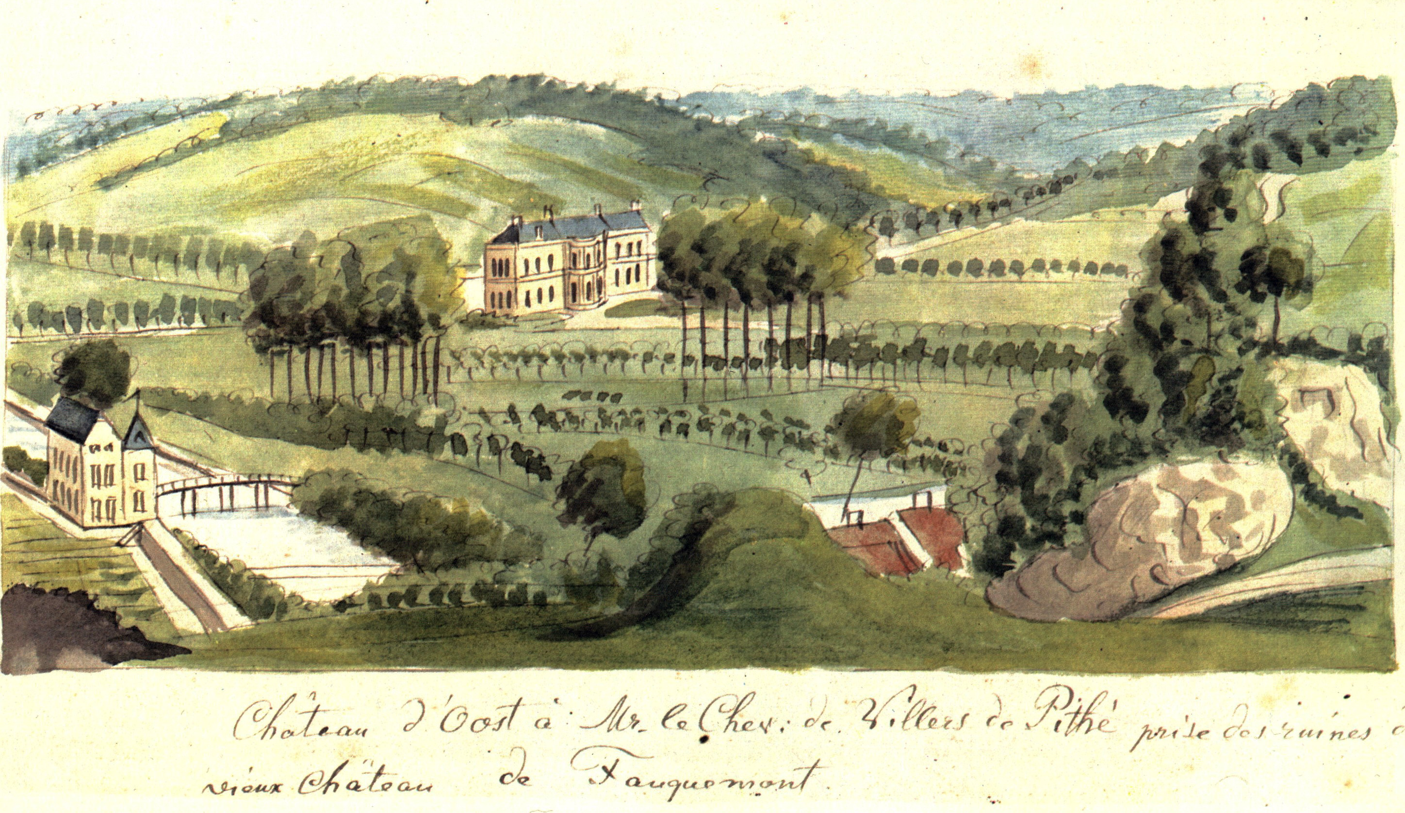 View of House Oost in Valkenburg, Limburg, the Netherlands. Drawing by Philippus van Gulpen (c 1840-60)